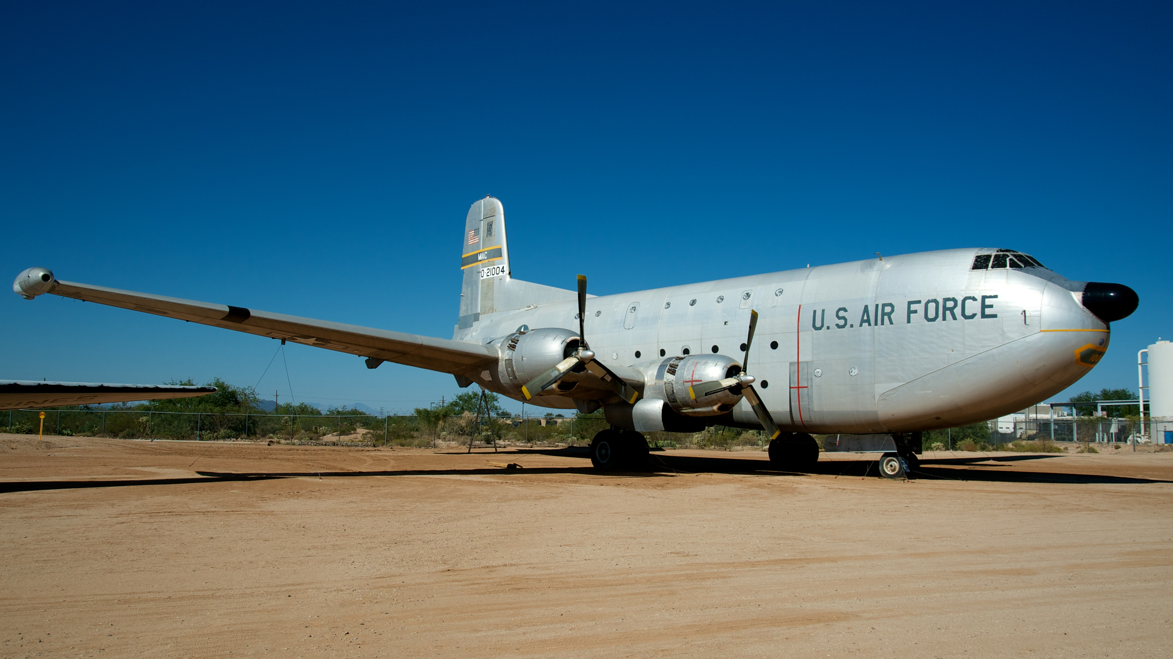 Douglas C-124C Globemaster II 52-1004 at the Pima Air and Space Museum. From Wikipedia: The Douglas C-124 Globemaster II, nicknamed "Old Shaky", was a heavy-lift cargo aircraft built by the Douglas Aircraft Company in Long Beach, California. The C-124 was the primary heavy-lift transport for United States Air Force Military Air Transport Service (MATS) during the 1950s and early 1960s until the C-141 Starlifter entered service. It served in MATS, later Military Airlift Command (MAC), gained units of the Air Force Reserve and Air National Guard until 1974.